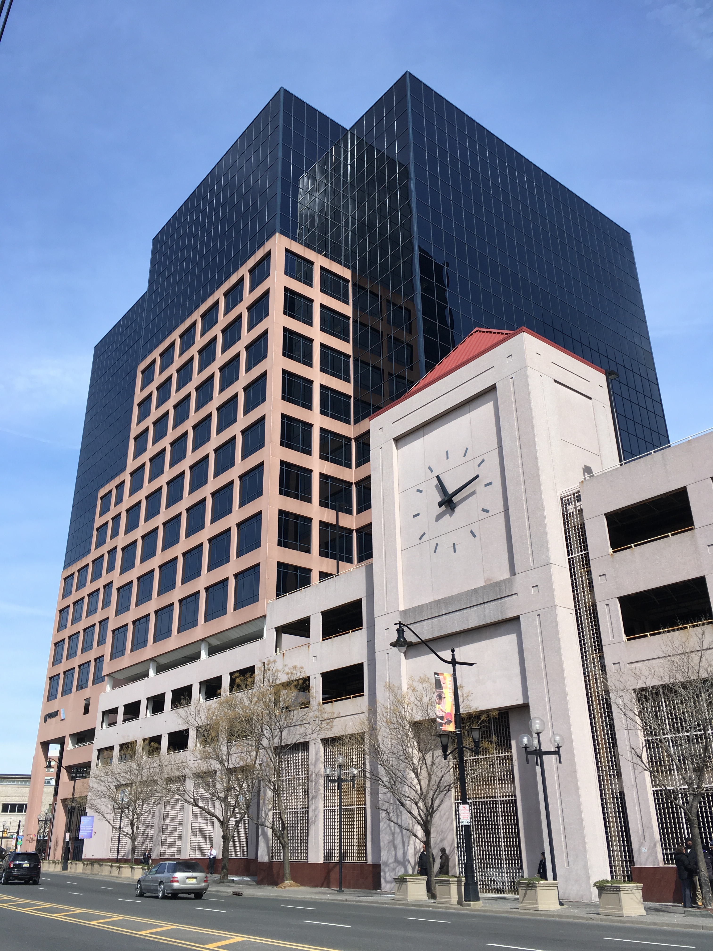 NJTransit Headquarters in Newark, NJ